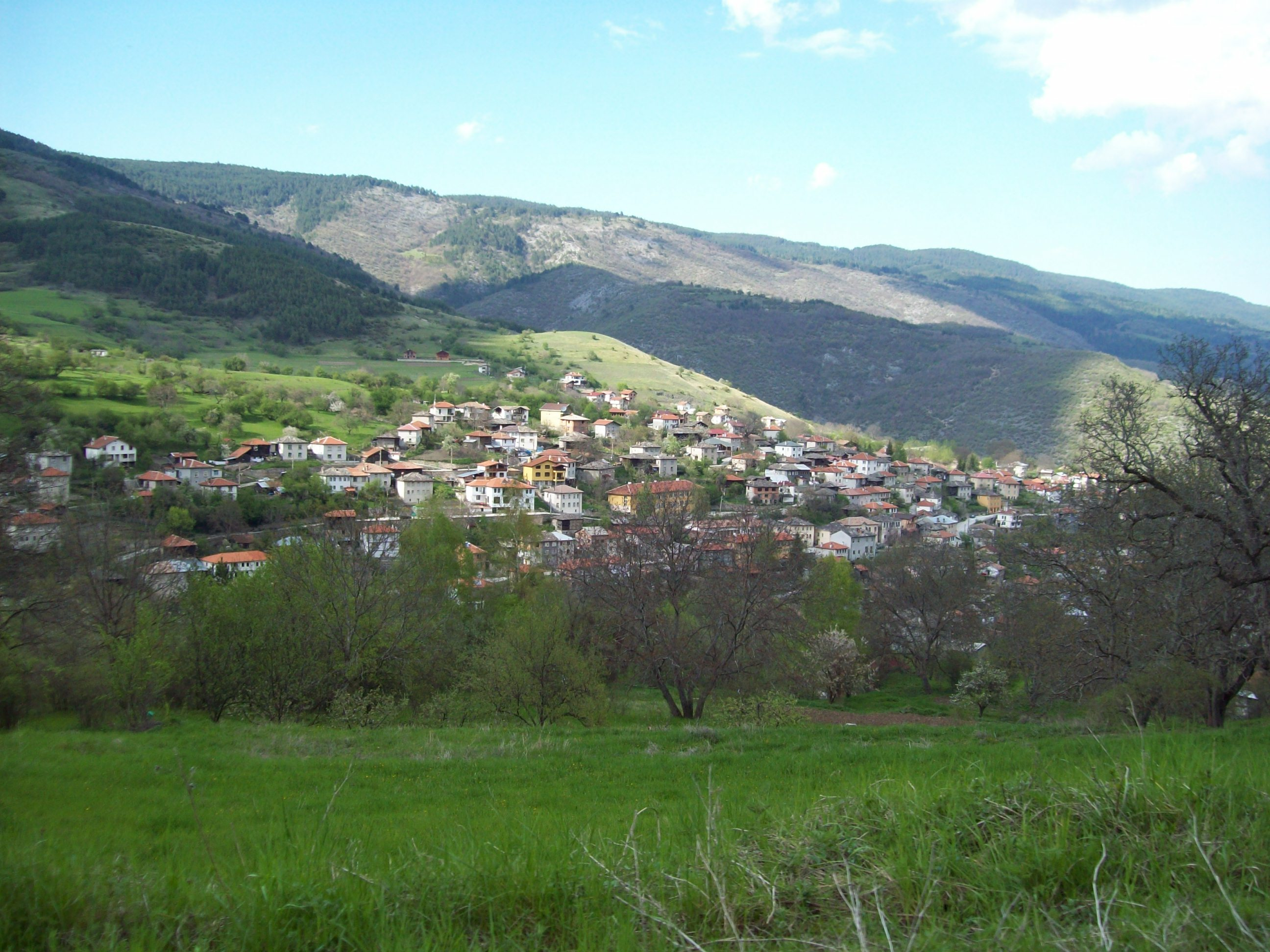 Orehovo vilage, Smolyan District